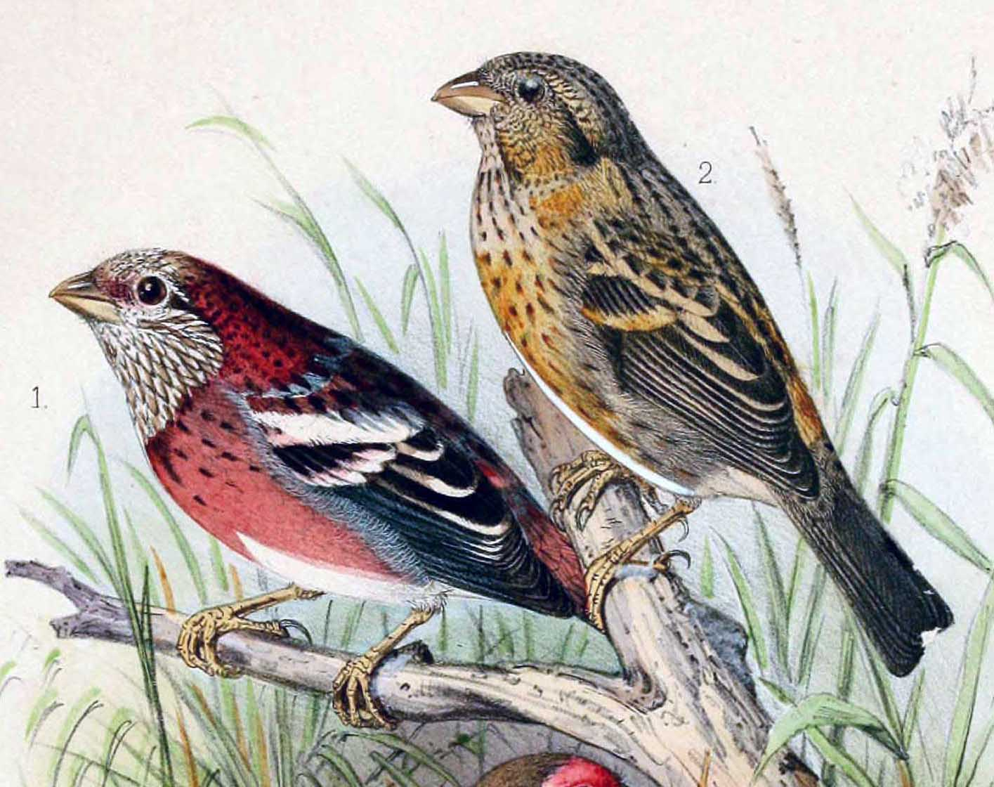 « Carpodacus trifasciatus » = Carpodacus trifasciatus (Three-banded Rosefinch) - male (1) and female (2)